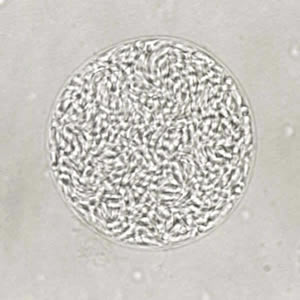 T. gondii tissue cyst (unstained). Slowly-dividing bradyzoites can be seen inside.